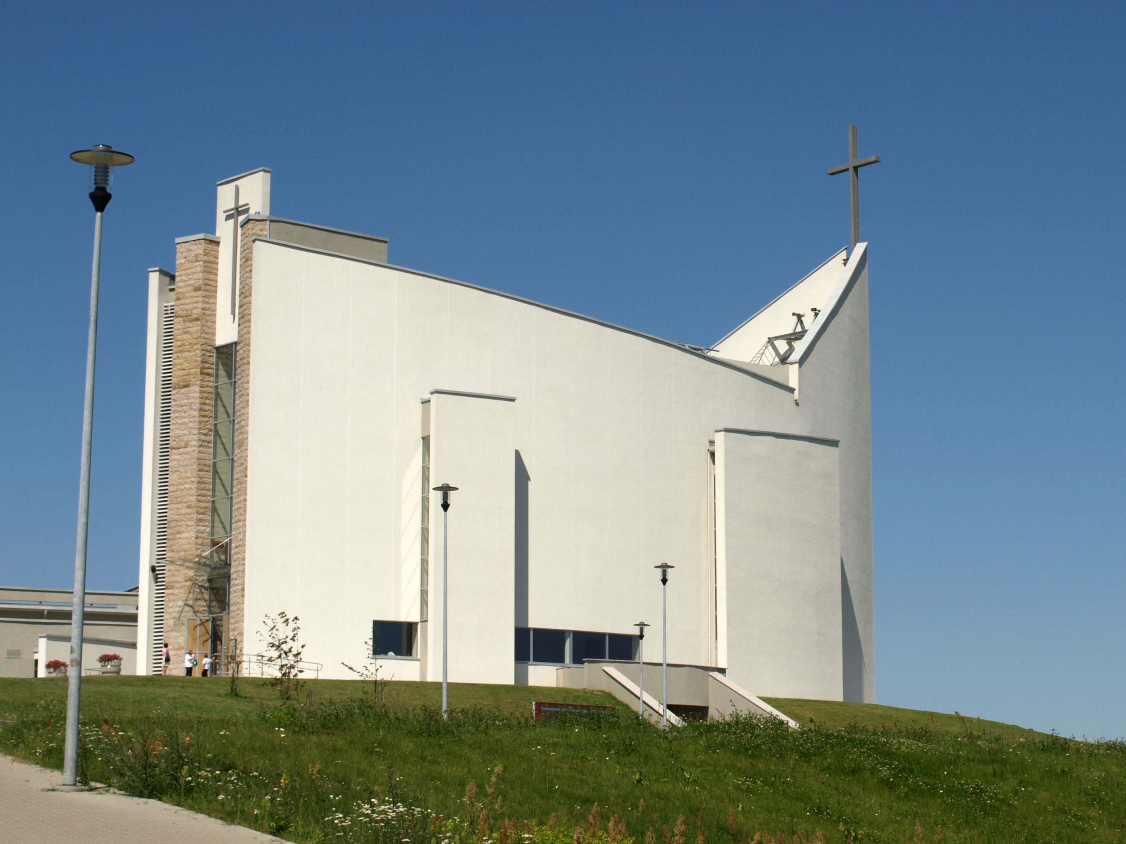 Pabradė church, Švenčionys district, Lithuania